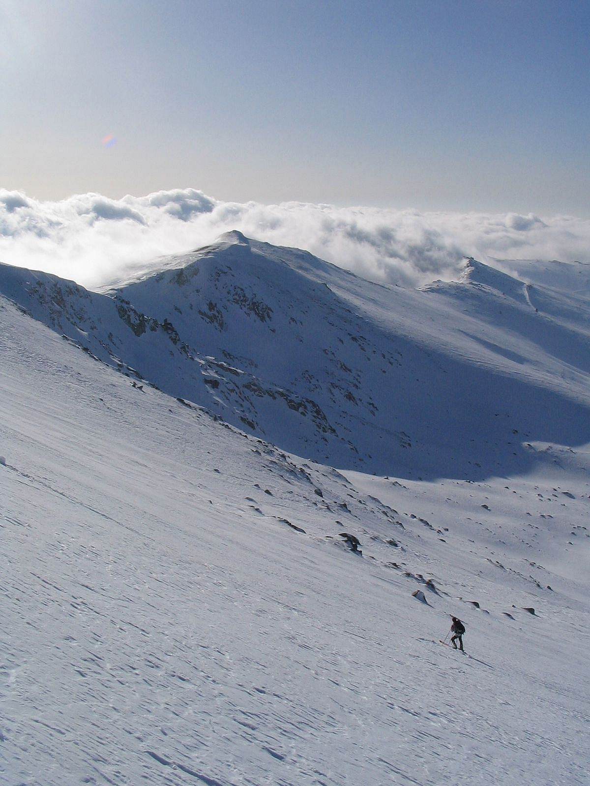 going down from Uludag top with mountain skiing